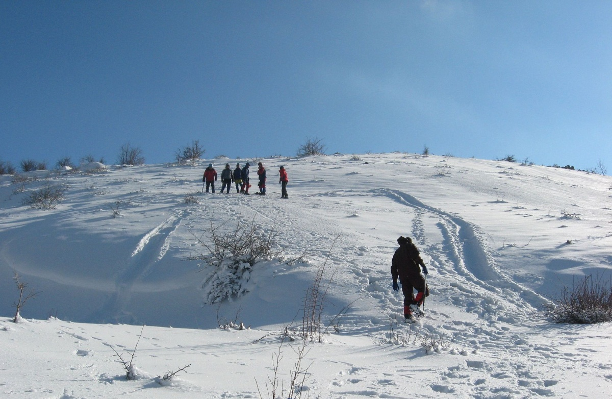 Hazarbaba Ski Centre